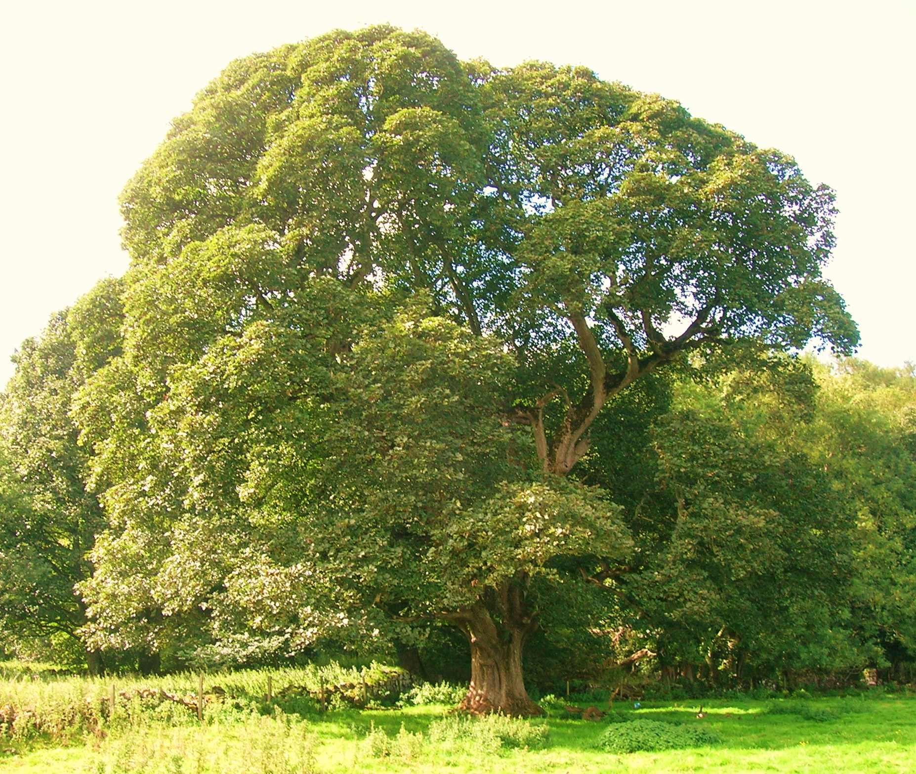 Ancient Sycamore (5 metres circumference) at Old Auchans, Dundonald, South Ayrshire, Scotland